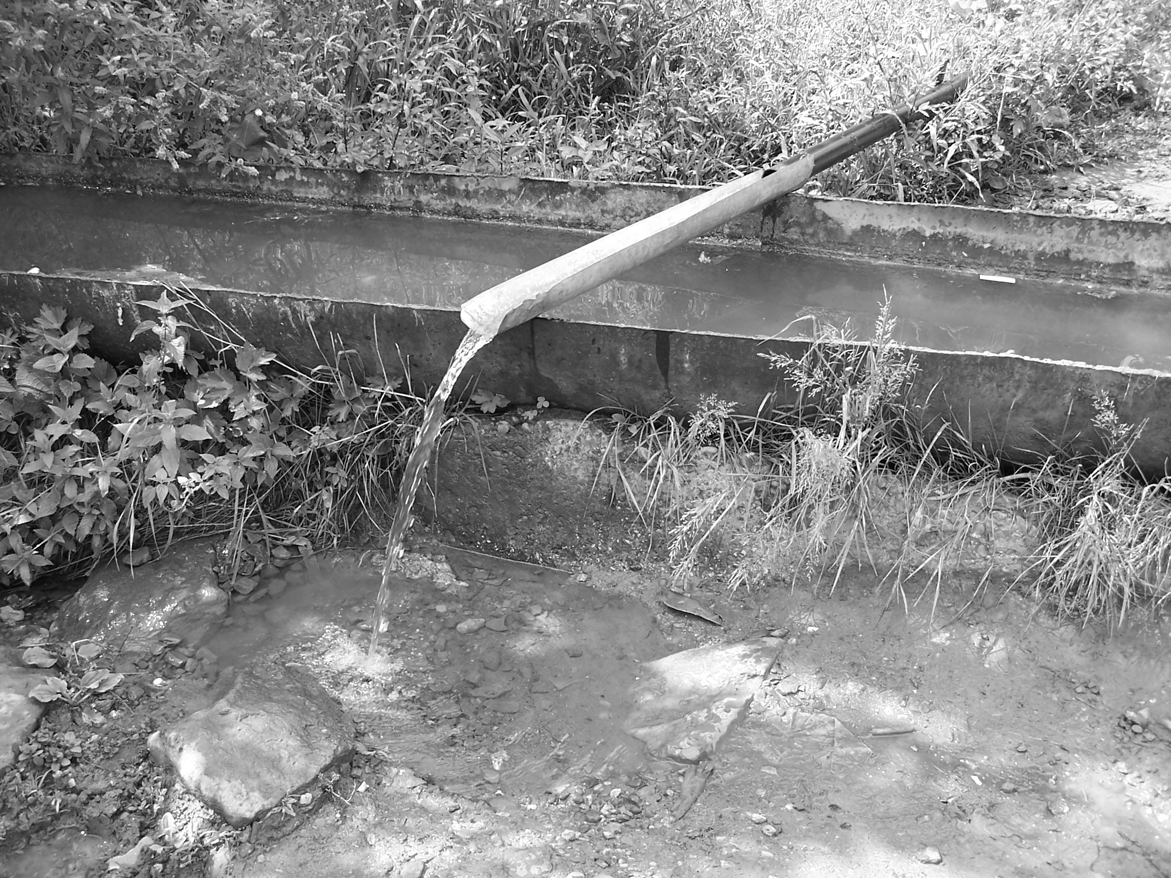 A spring in Manglisi, Georgia